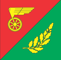 Flag of Znamyanka. Kirovograd Oblast Ukraine